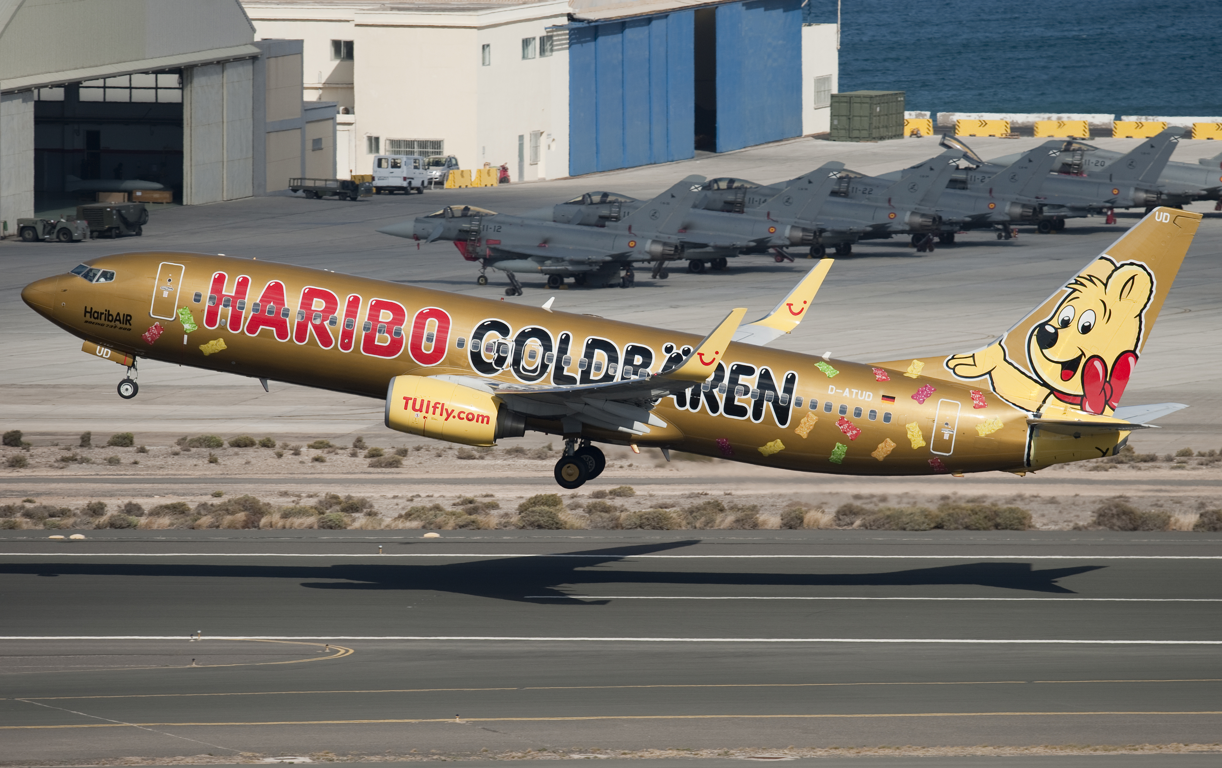 D-ATUD Boeing 737-8K5 TUIfly c/n 34685 taking off from Gando Airpot